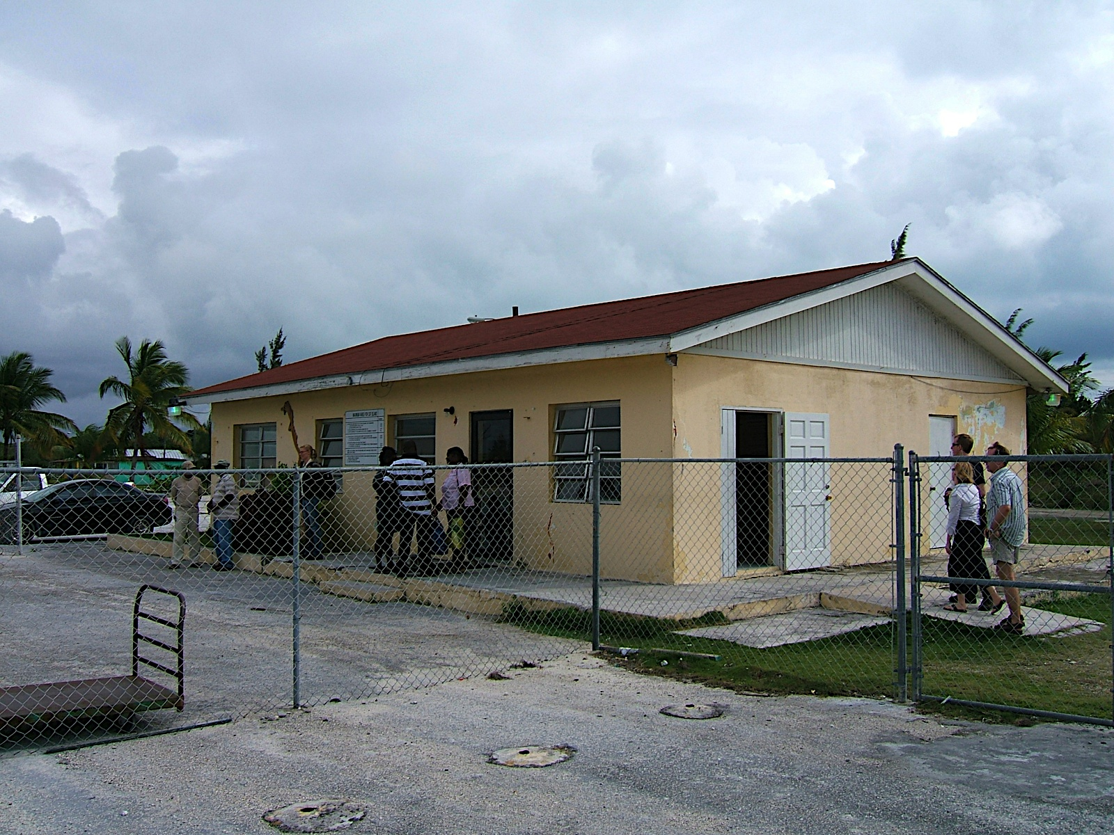 The Arthurs Town, Cat Island airport terminal.